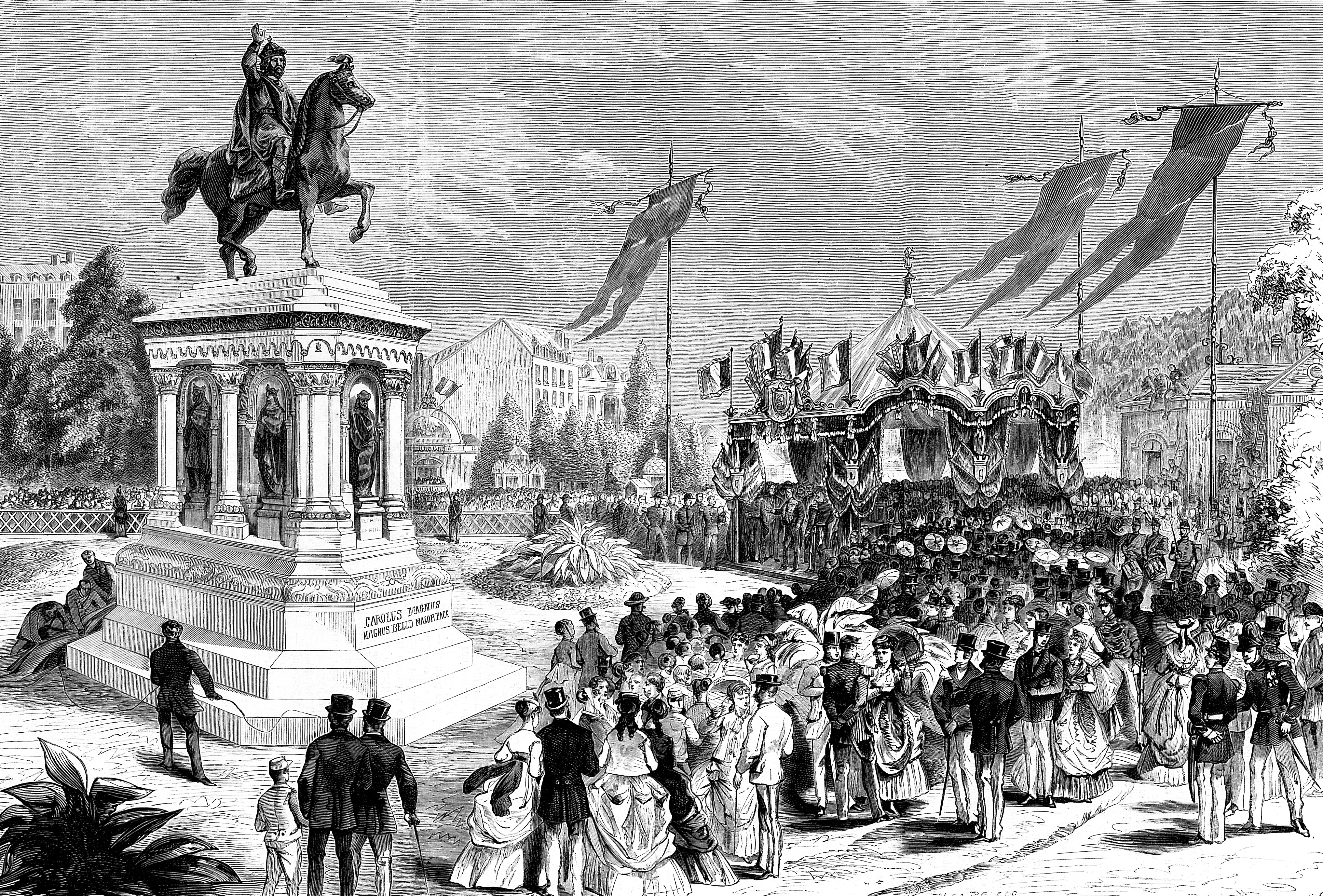 Inauguration of the statue of Charlemagne, Boulevard d’Avroy in Liège (Belgium), 26 July 1868. — On Sunday 26 July, Mr de Luesemans, governor of the Province of Liège, officially handed over to the administration of the city the monument erected at the roundabout of the Boulevard d’Avroy. A large and elegant pavilion had been erected opposite to the statue which was veiled to the eyes of passersby. Everyone was there: the aides-de-camp of Leopold II, the rector of the University, the professors of the faculties, the magistrates, the director of the Academy of Fine Arts, the president of the Archaeological Institute. The statue was made by Louis Jehotte, Belgian sculptor, born in Liège on 7 November 1803, died in Brussels on 3 February 1884, professor of sculpture at the Academy of Fine Arts of Brussels.